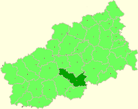 Tver Oblast map by Al Silonov